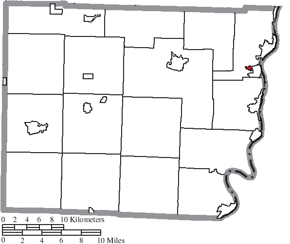 Map of the municipal and township boundaries of Belmont County, Ohio, United States, as of the 2000 census, with the location of the village of Brookside highlighted. Township borders are shown only in unincorporated areas in order to differentiate incorporated and unincorporated areas more clearly.